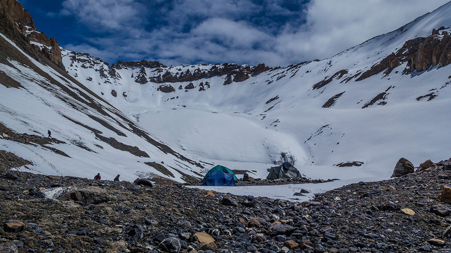 Base Camp for the 2015 Shilla Col & Shilla Nullah Expedition